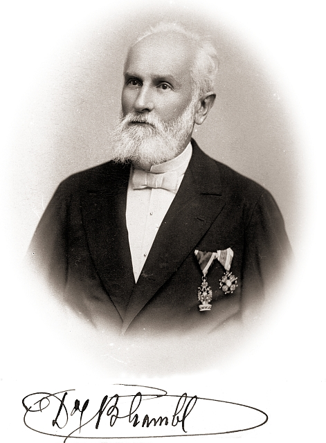 The photograph of Czech agronomist Jan Baptista Lambl (1826—1909)